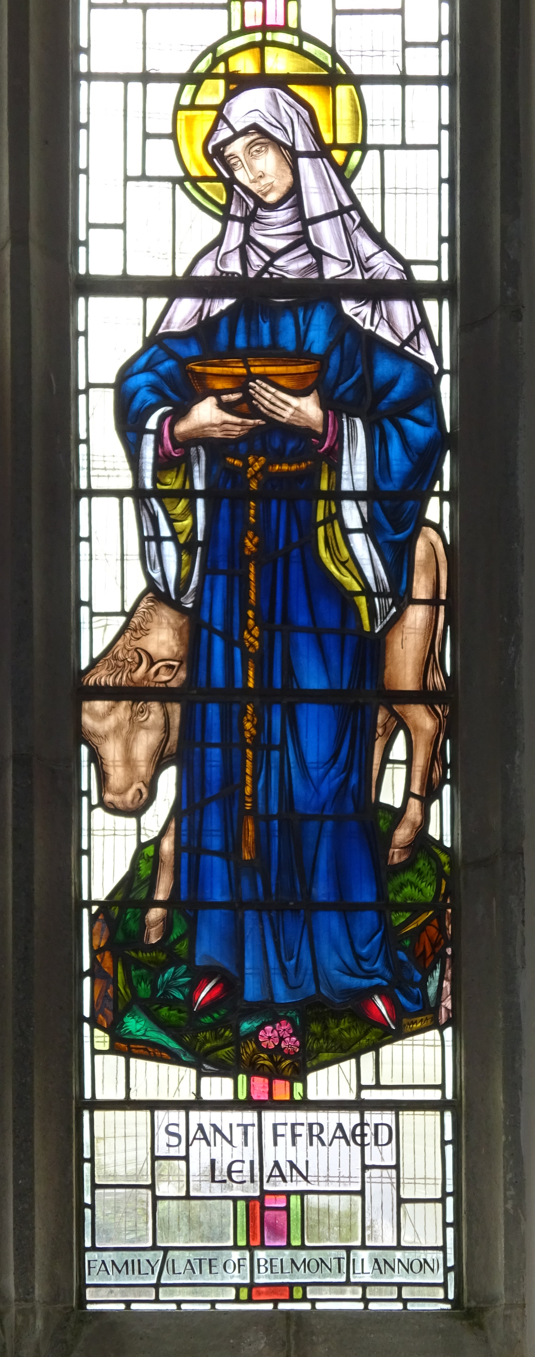 Church of St Ffraid aka St Bride, Llansantffraid, Ceredigion.